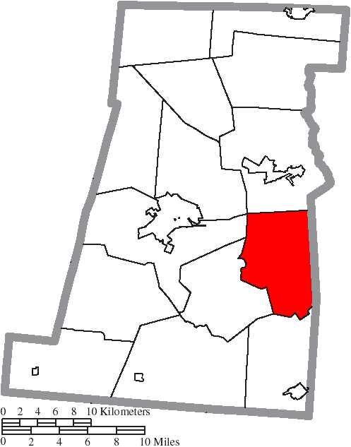 Map of the municipal and township boundaries of Madison County, Ohio, United States, as of the 2000 census, with the location of Fairfield Township highlighted. Township borders are shown only in unincorporated areas in order to differentiate incorporated and unincorporated areas more clearly.